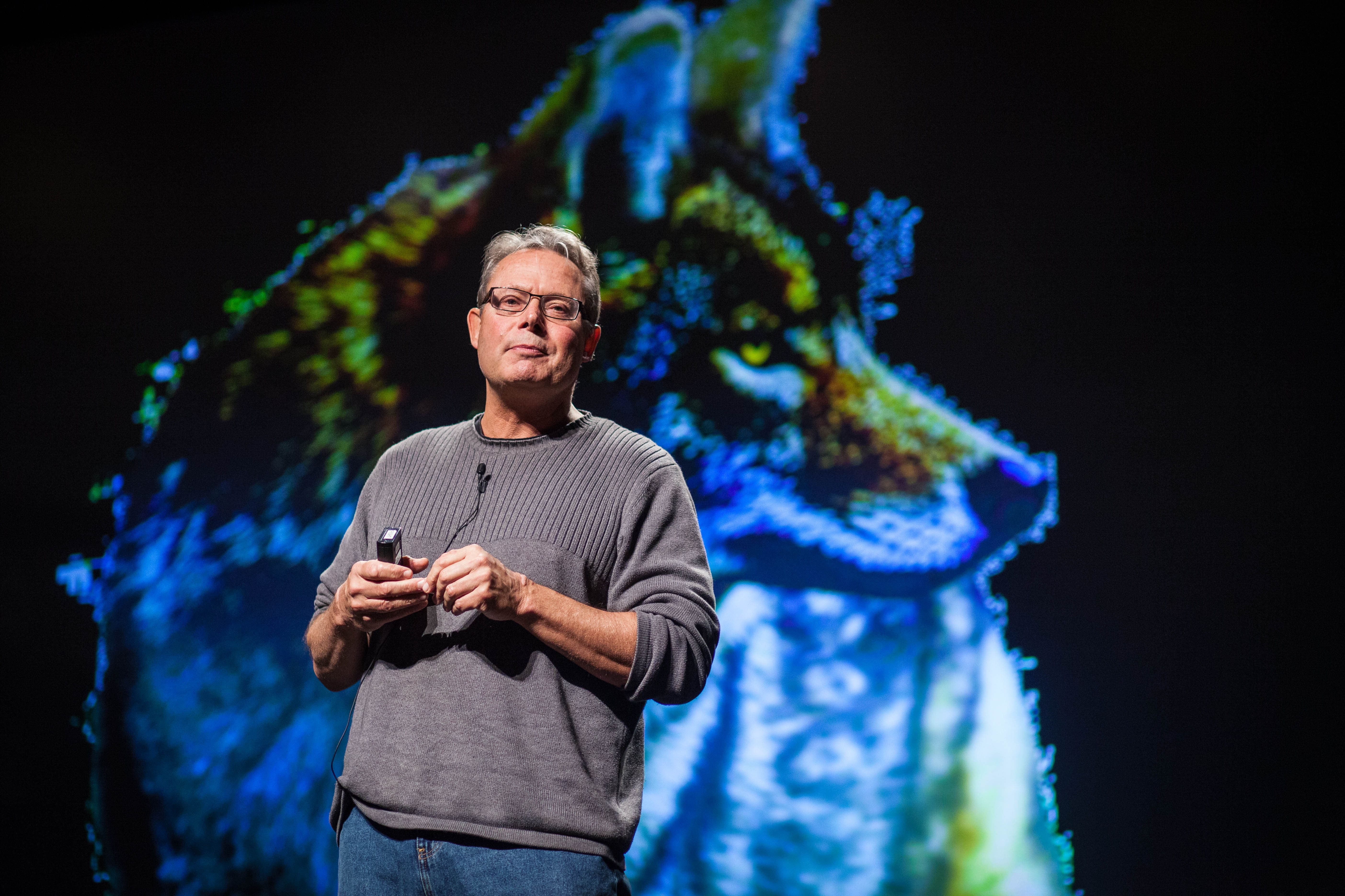 Peter Kareiva at Camden, USA during a speech